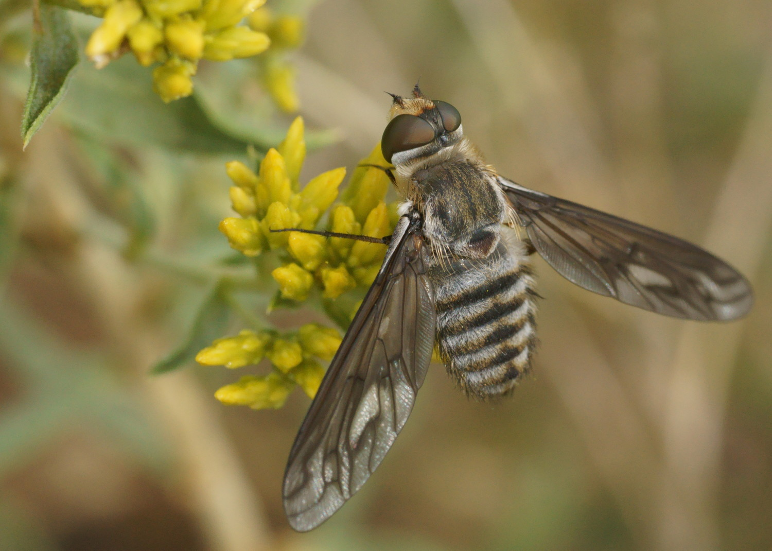 Poecilanthrax apache checking flower buds along County Route 34A in Sheldon National Antelope Refuge, Nevada, US